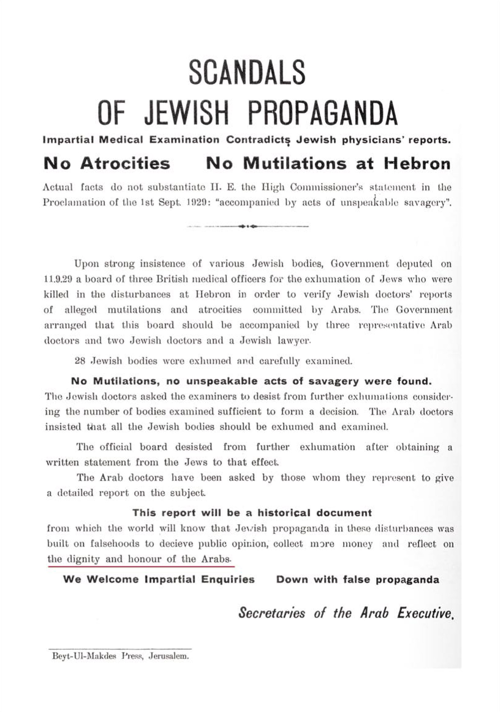 Arab poster claiming there were no mutilations of Jews during the Hebron 1929 massacre.